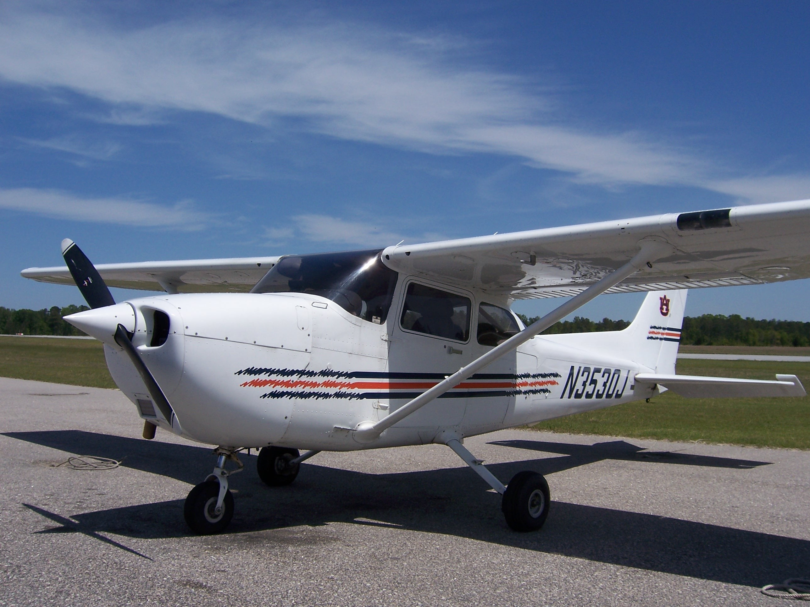 This image is of a Cessna C172 Skyhawk (N3530J) operated by Auburn University.